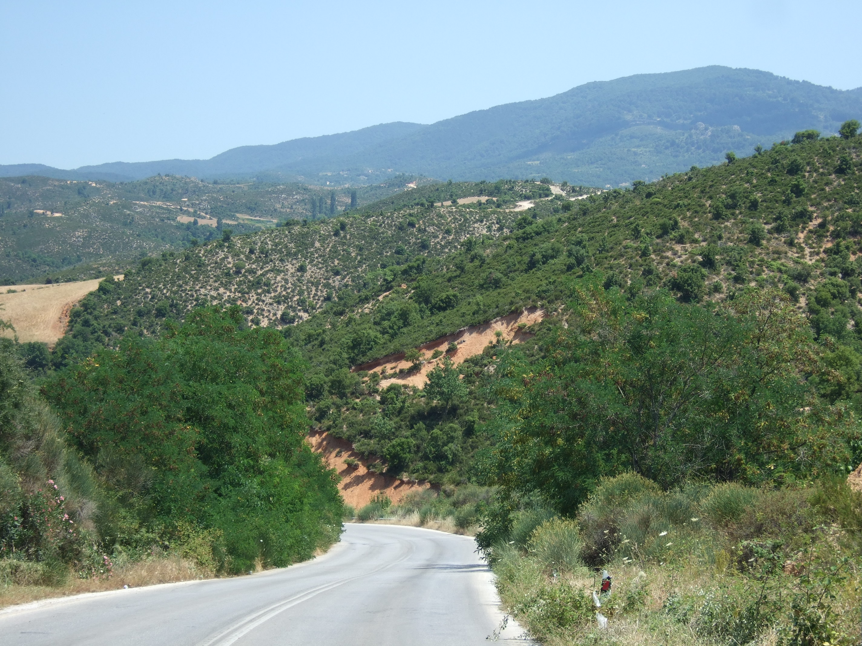 highway heading northern Cholomondas Mountains source name: dscf_F30-2_010031_abwärts_Richtung_Cholomondas-Gebirge.jpg